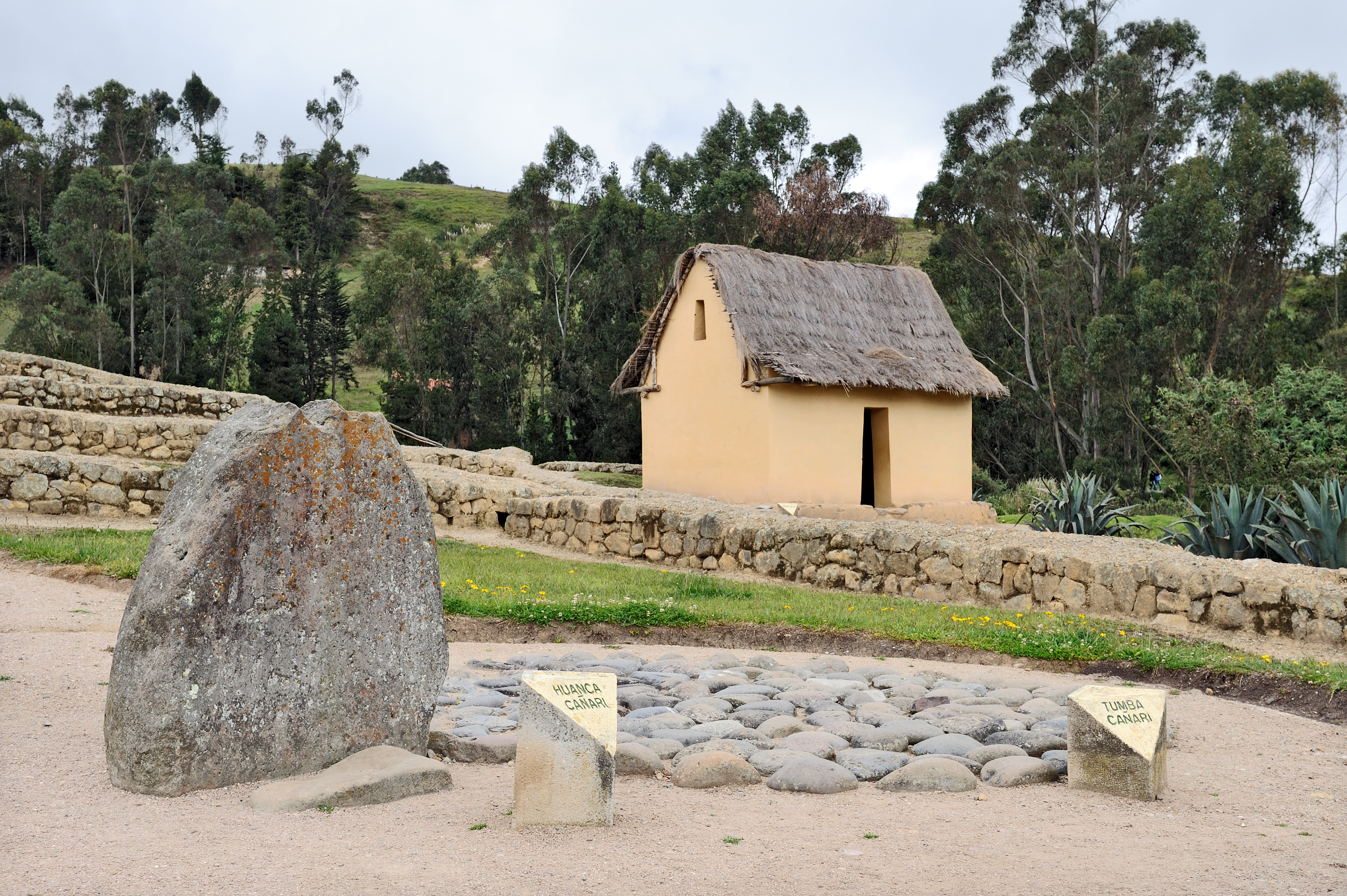 Ingapirca, Ecuador, Caħari ruins: astrononical stone (left), tomb (right) and reconstructed house (background). The top of the huanca is carved in such a way, that on June 21st ('winter' solstice), the shadows formed when the sun directly hits the stone, are in the shape of a puma, condor and snake, which were sacred animals to the Cañaris